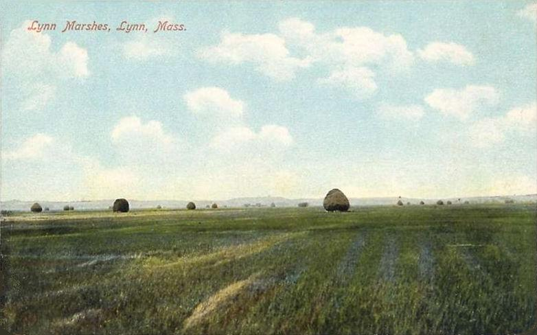 Lynn Marshes, Lynn, Massachusetts on an early postcard